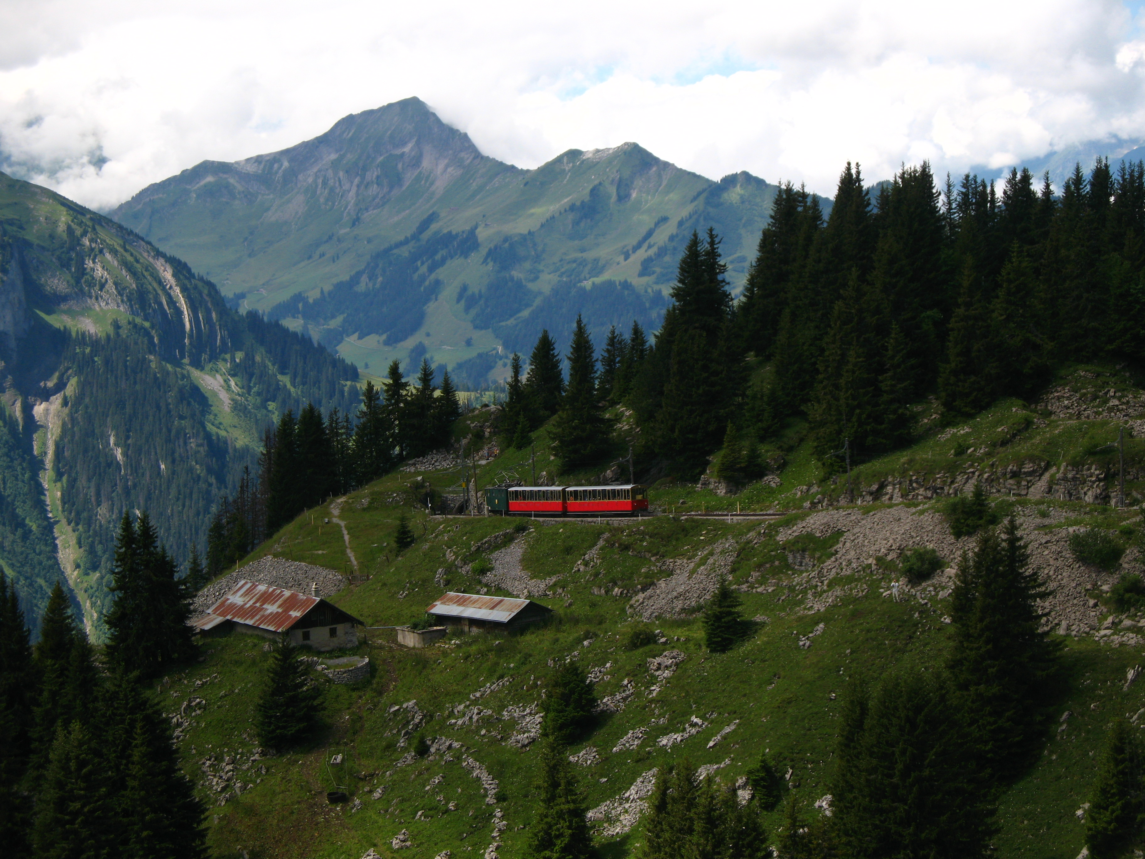 Sulegg and Bellenhöchst viewed from the Schynige Platte Railway, Switzerland